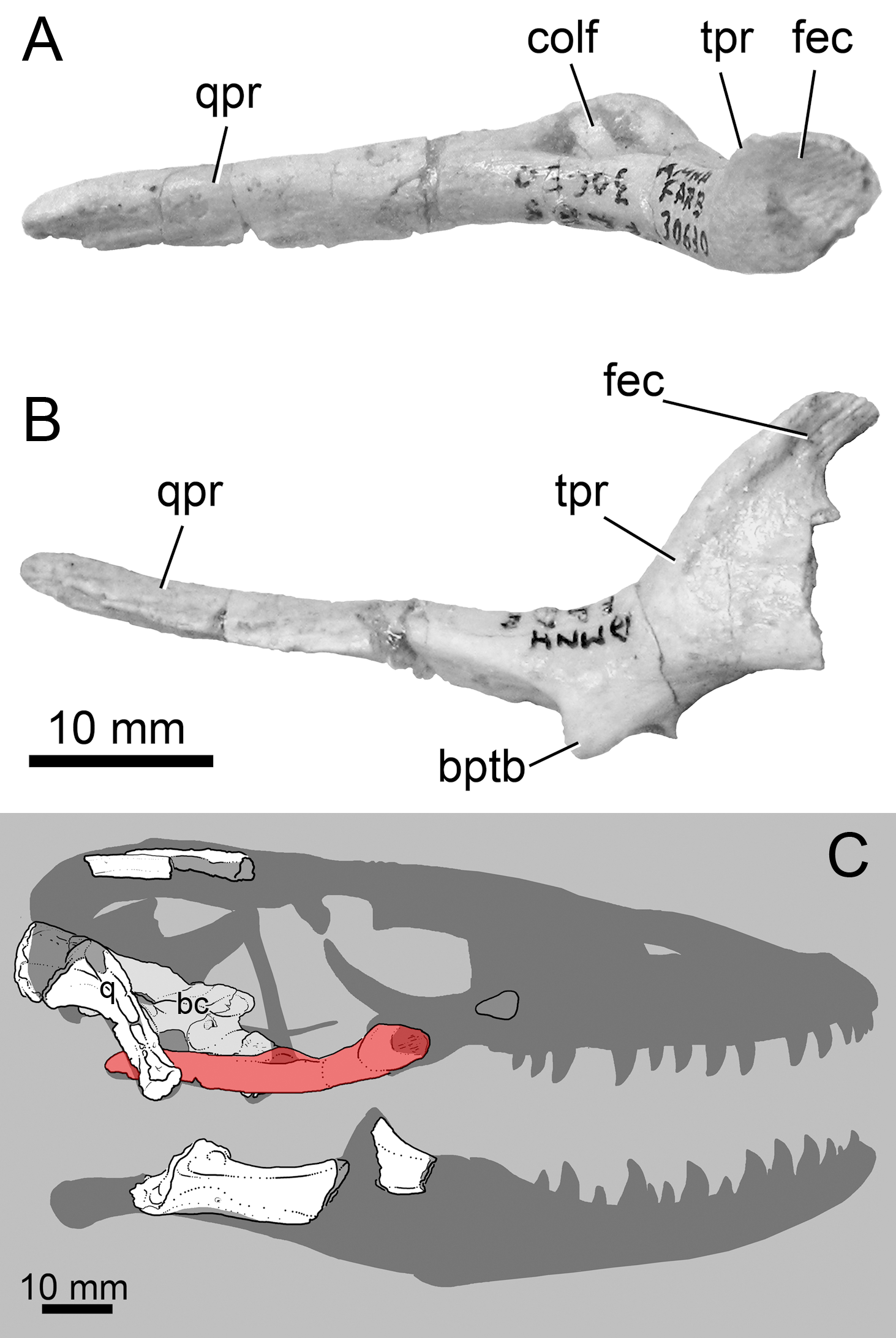 Right pterygoid bone (part of the holotype, AMNH FR 30630) of Varanus (Varaneades) amnhophilis CONRAD et al. 2012 from the upper Miocene of Samos (Greece) in lateral (A) and ventral (B) views. Figure C shows the position of the bone (highlighted in red) in the silhouette of a Varanus skull in right lateral view. Abbreviations: bc, braincase; bptb, basipterygoid buttress; colf, columellar fossa; fec, ectopterygoid facet; q, quadrate; qpr, quadrate process; tpr, transverse process.